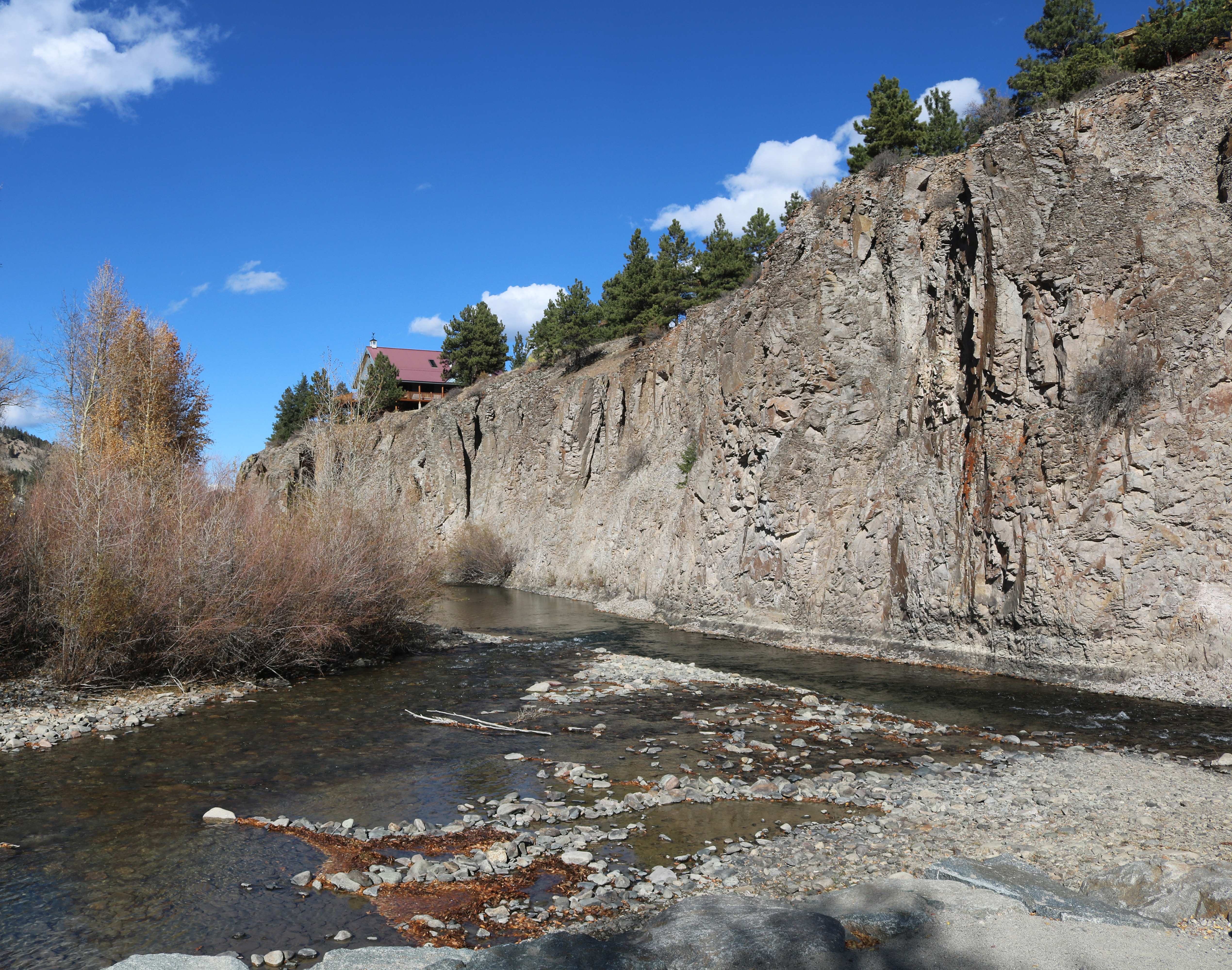 The confluence of Henson Creek (left) and Lake Fork Gunnison River (right, against the wall) in Lake City, Colorado.